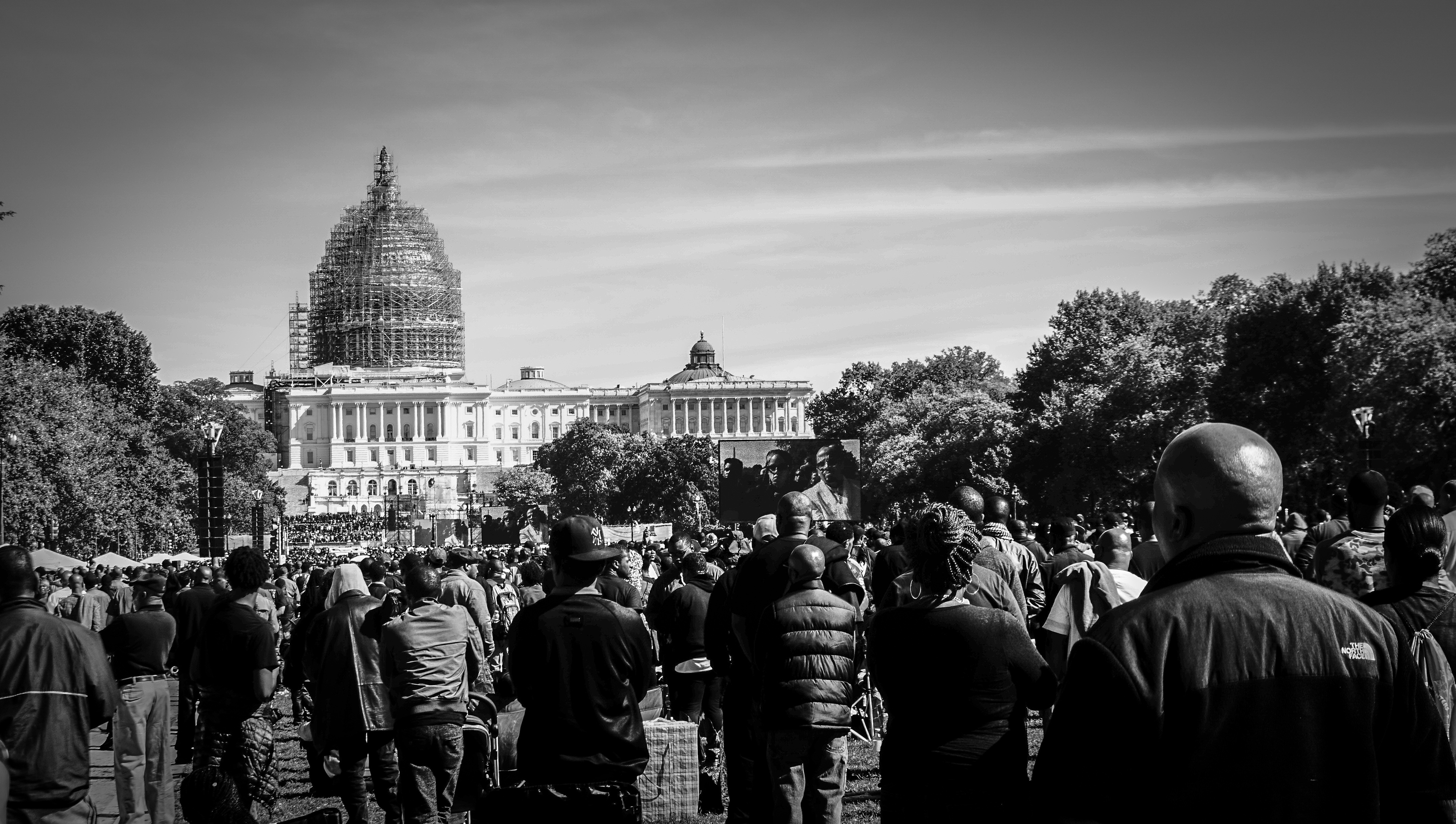 Million Man March Washington DC USA 09676